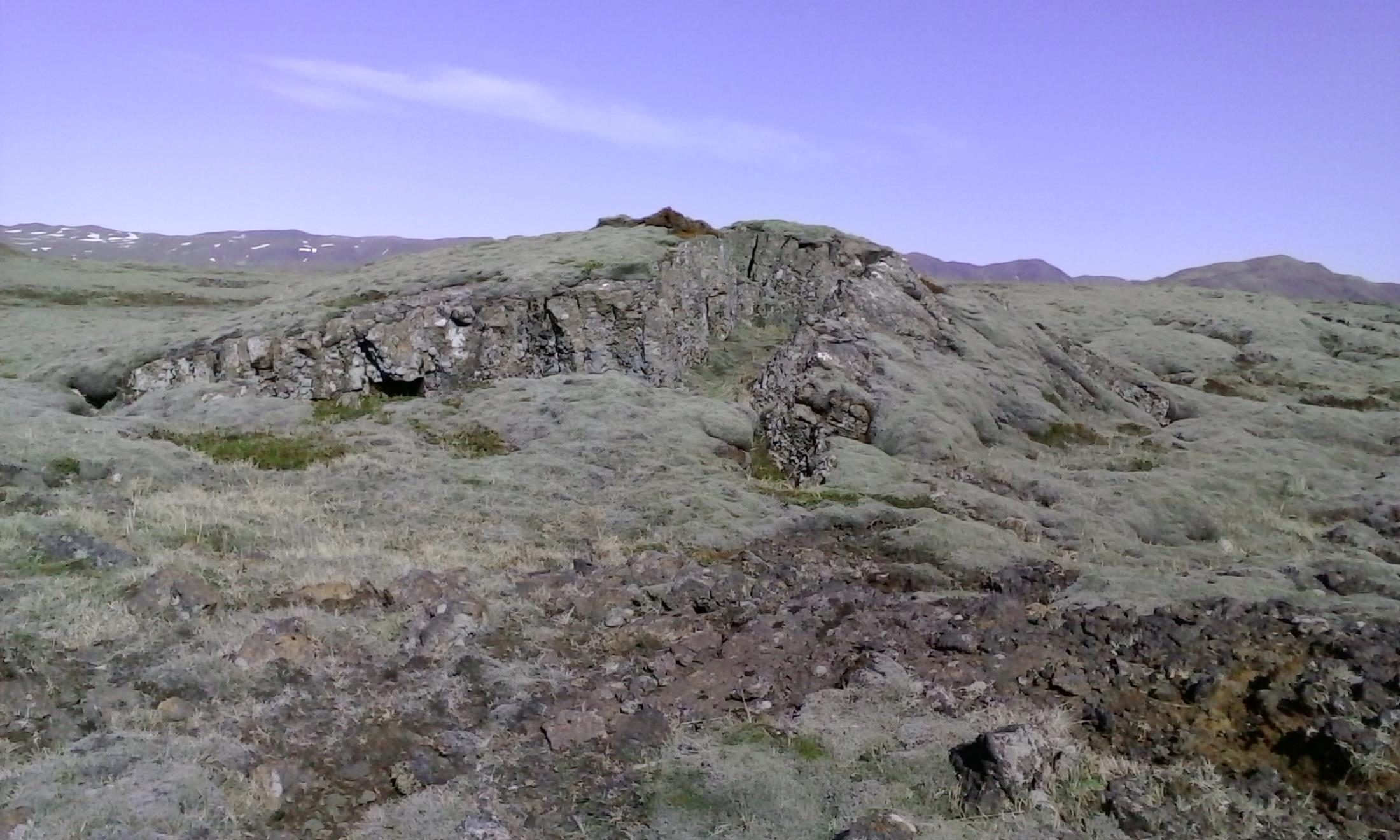 Litla Sandfell, Bláfjöll, Iceland